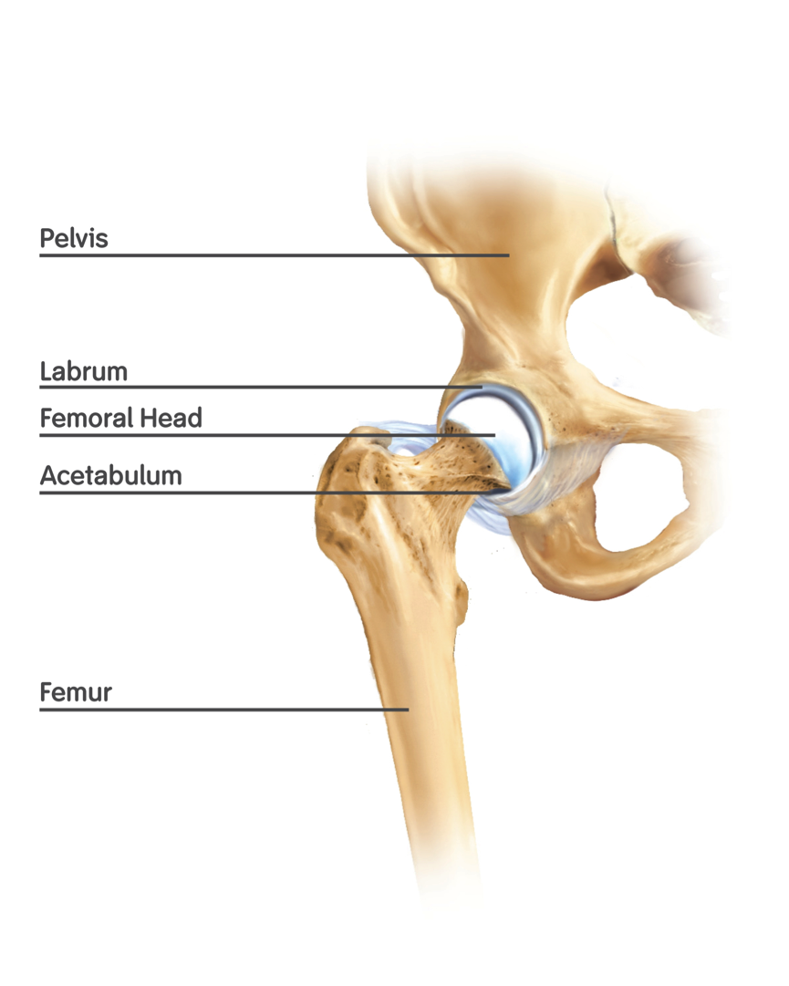 Hip joint